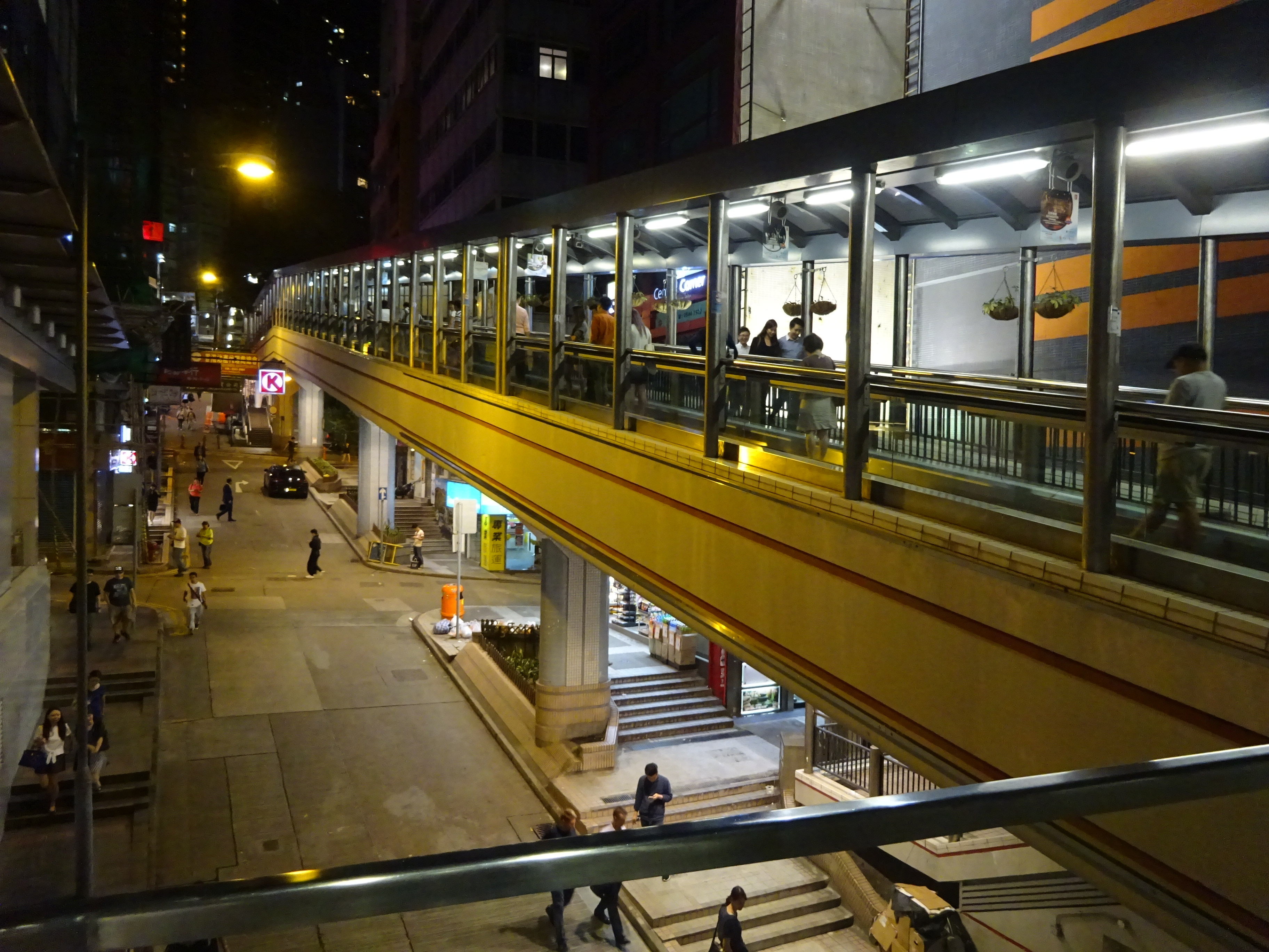 Central footbridge, Hong Kong at night